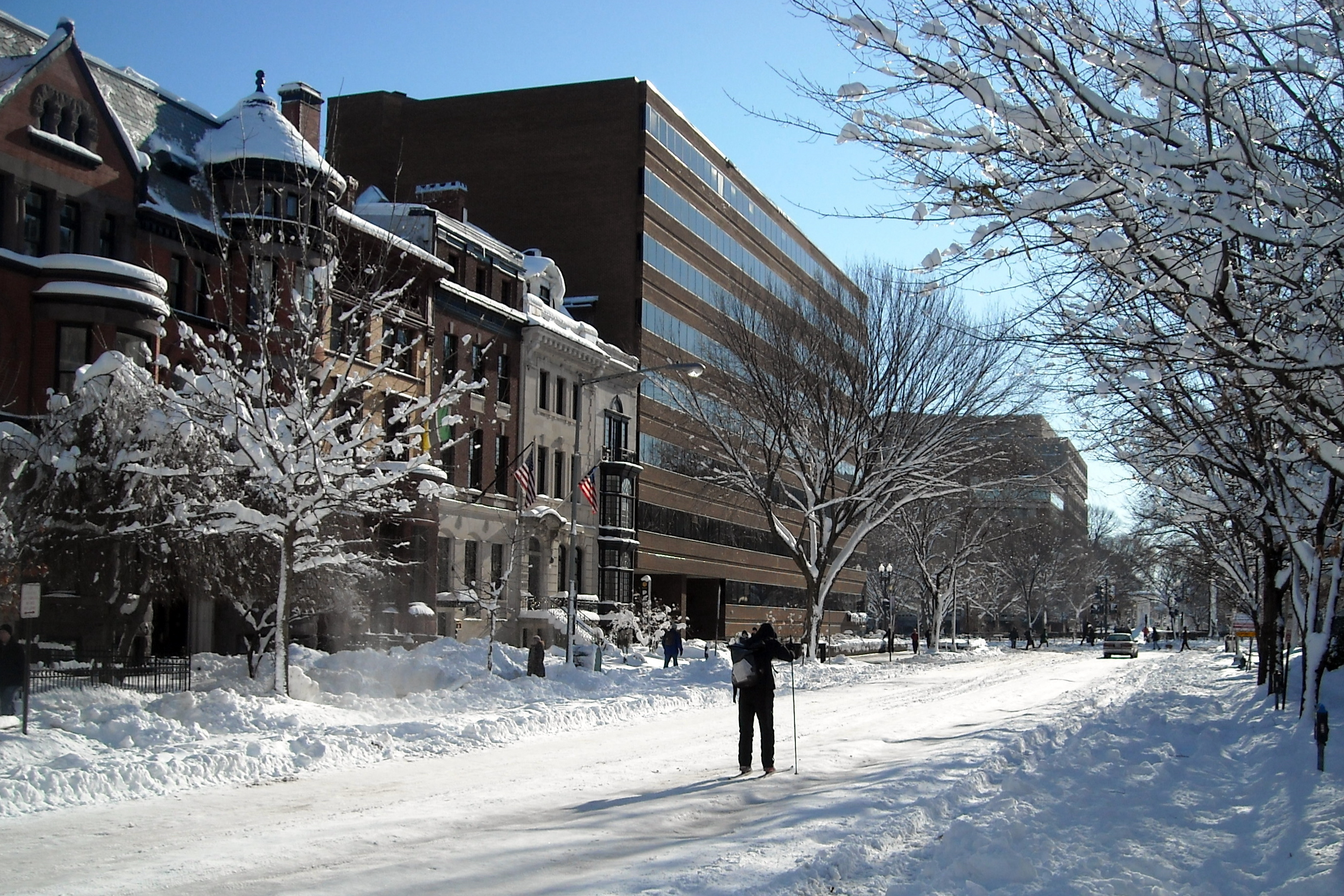 A cross-country skiier on New Hampshire Avenue, N.W., in the Dupont Circle neighborhood of Washington, D.C., following the North American blizzard of 2010.